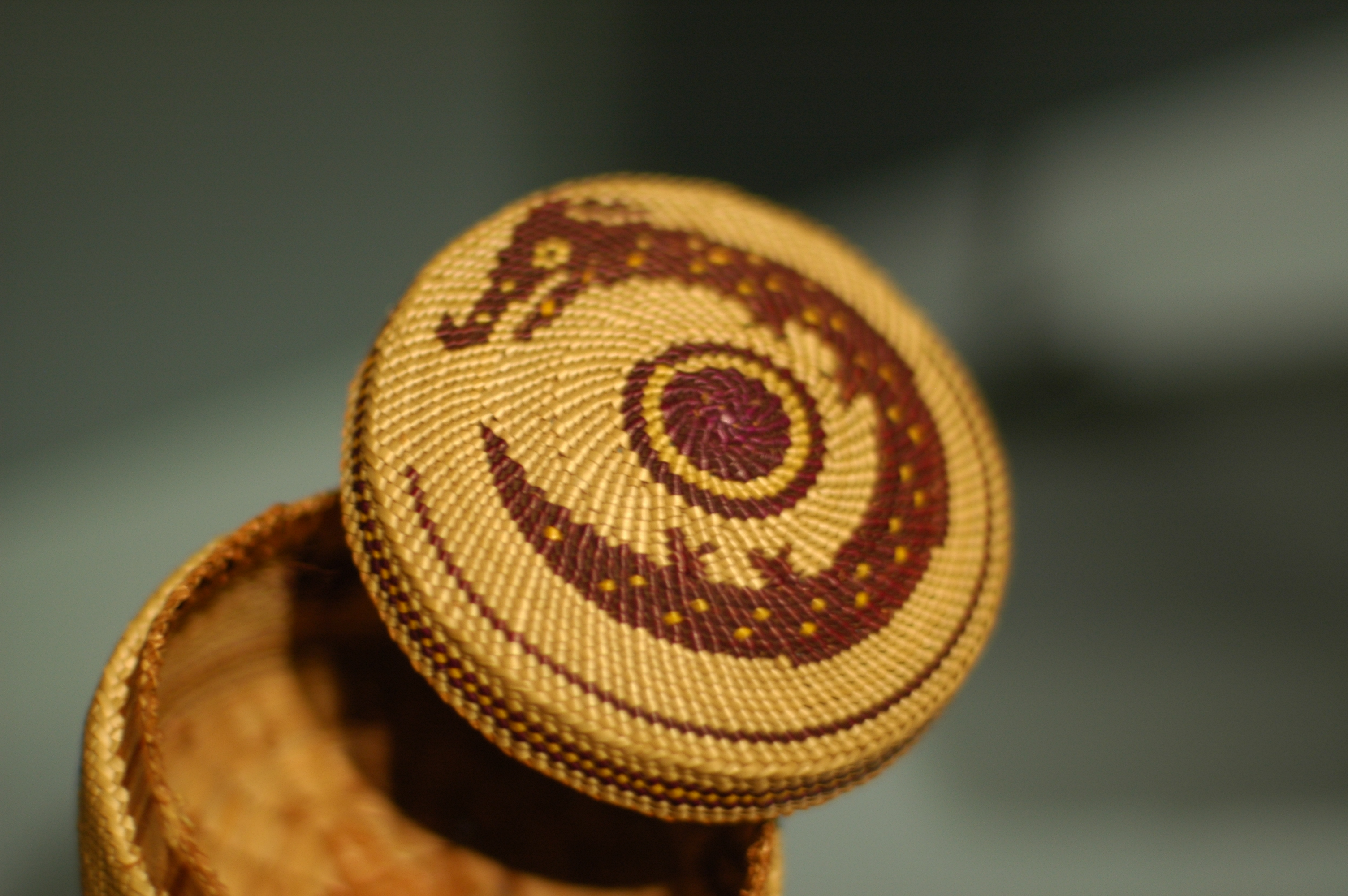 Nuu-chah-nulth cedar bark and bear grass basket from the late 1800s at the National Museum of the American Indian (cat.# 19/8930)